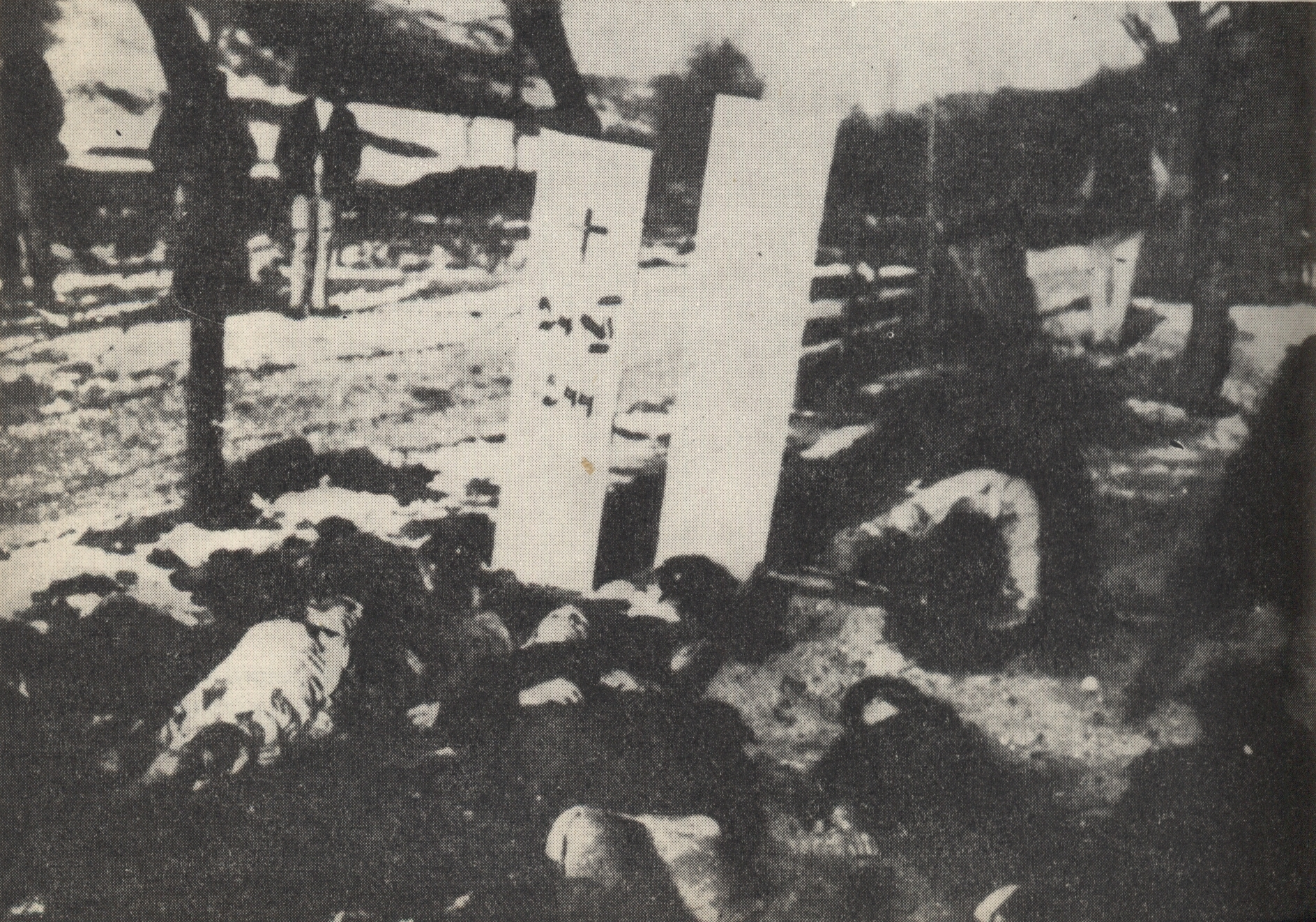 Poles from Ochotnica Dolna murdered by German occupants. On so-called “Bloody Eve” (23rd December 1944) SS troops partially burned Ochotnica and murdered 56 of its inhabitants. This photo was taken the day after the massacre by Polish partisan (nom de guerre „Ibis”).